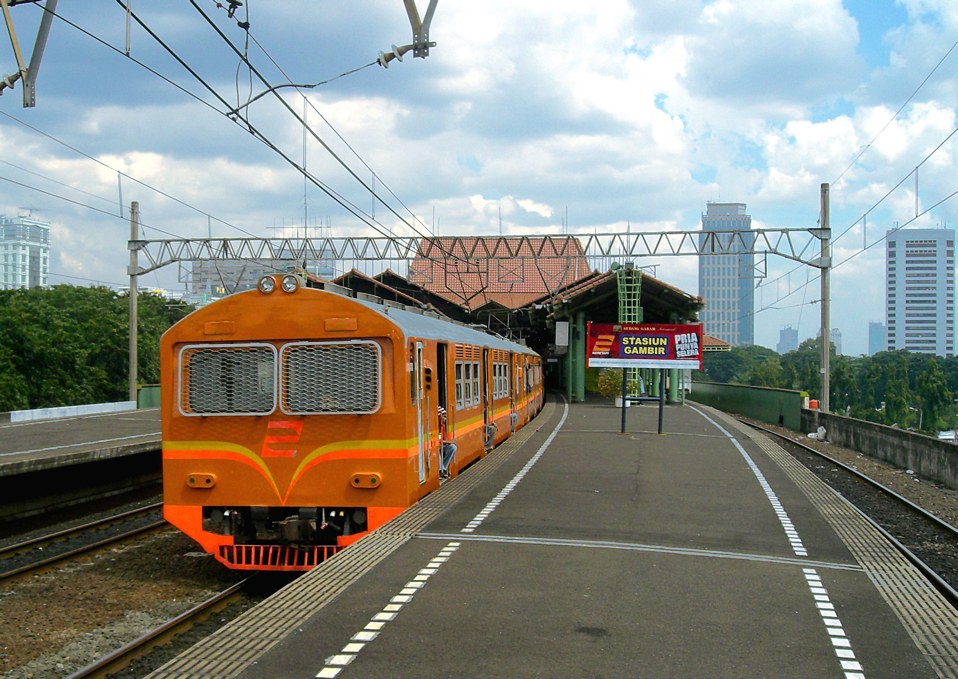 The upper platform of Gambir railway station, Jakarta, Indonesia.